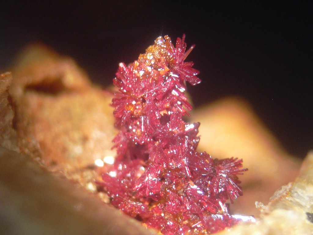 Phoenicochroite, Iranite Locality: Unión Minera mine, Caracoles, Sierra Gorda District, Antofagasta Province, Antofagasta Region, Chile Original description: Fantastic Phoenicochroite micro xls (up to 1 mm in range), with tiny light brown tabular Iranite xls perched on top of the group. Fov 3x3 aprox: foto & collection A.Molina/M.Dini